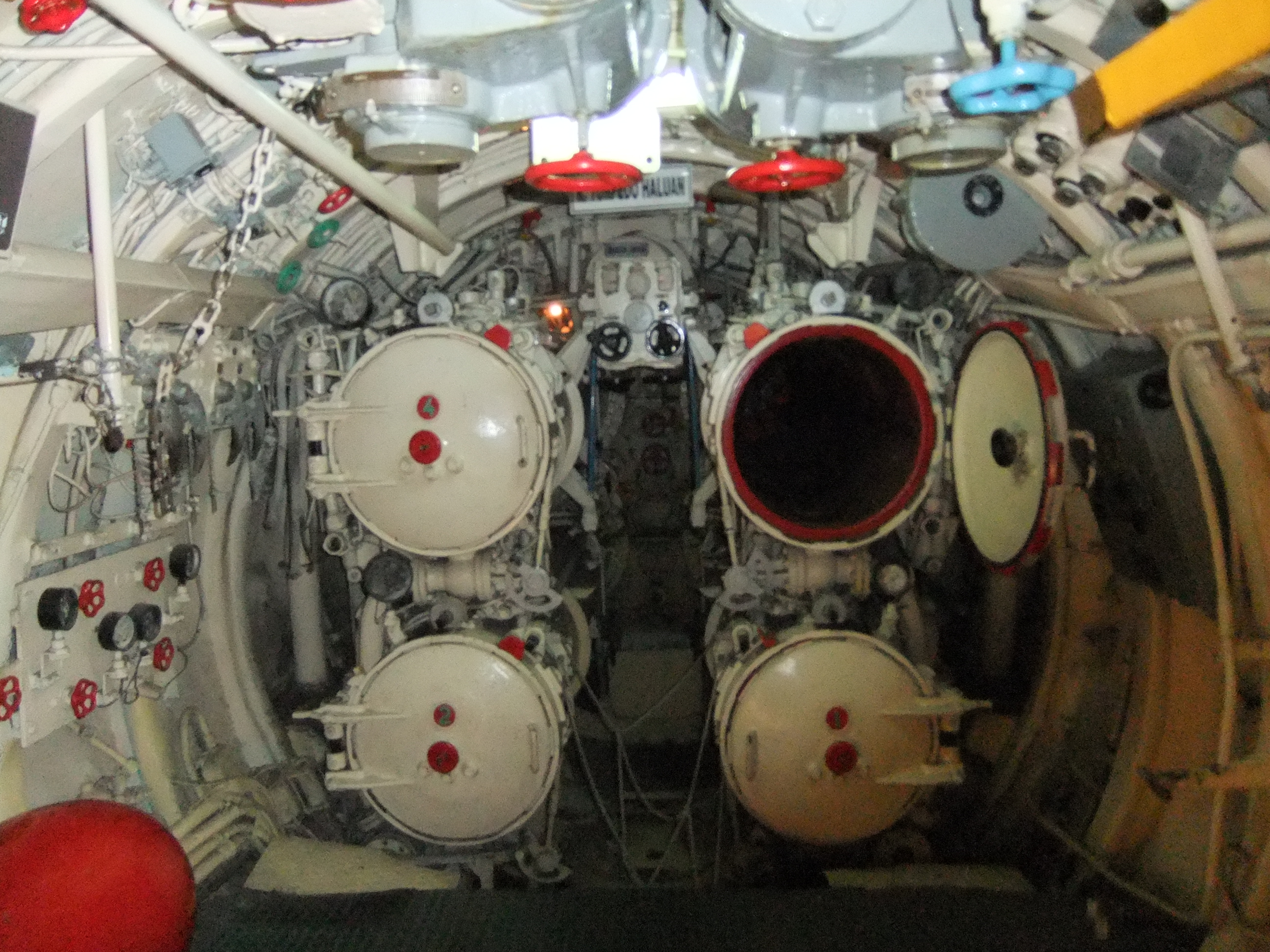 Submarine Monument (KRI Pasopati), Surabaya, Indonesia